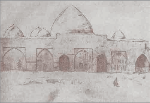 Shamakhi mosque by Grigory Gagarin.